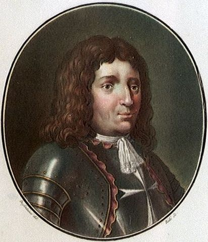 Jean-Baptiste de Valbelle (1627 – 17 April 1681) was a French naval officer, known for his role as commander of a squadron of French ships during the Franco-Dutch War of 1672–78.